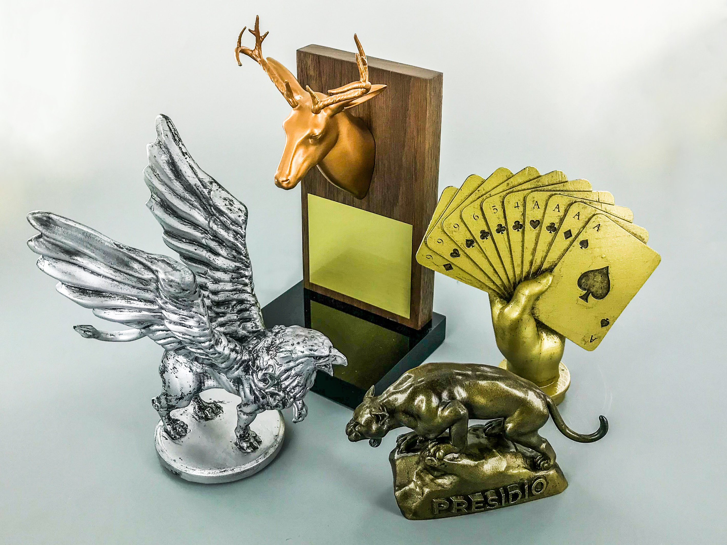 Altrum 3D print examples with different painted finishes